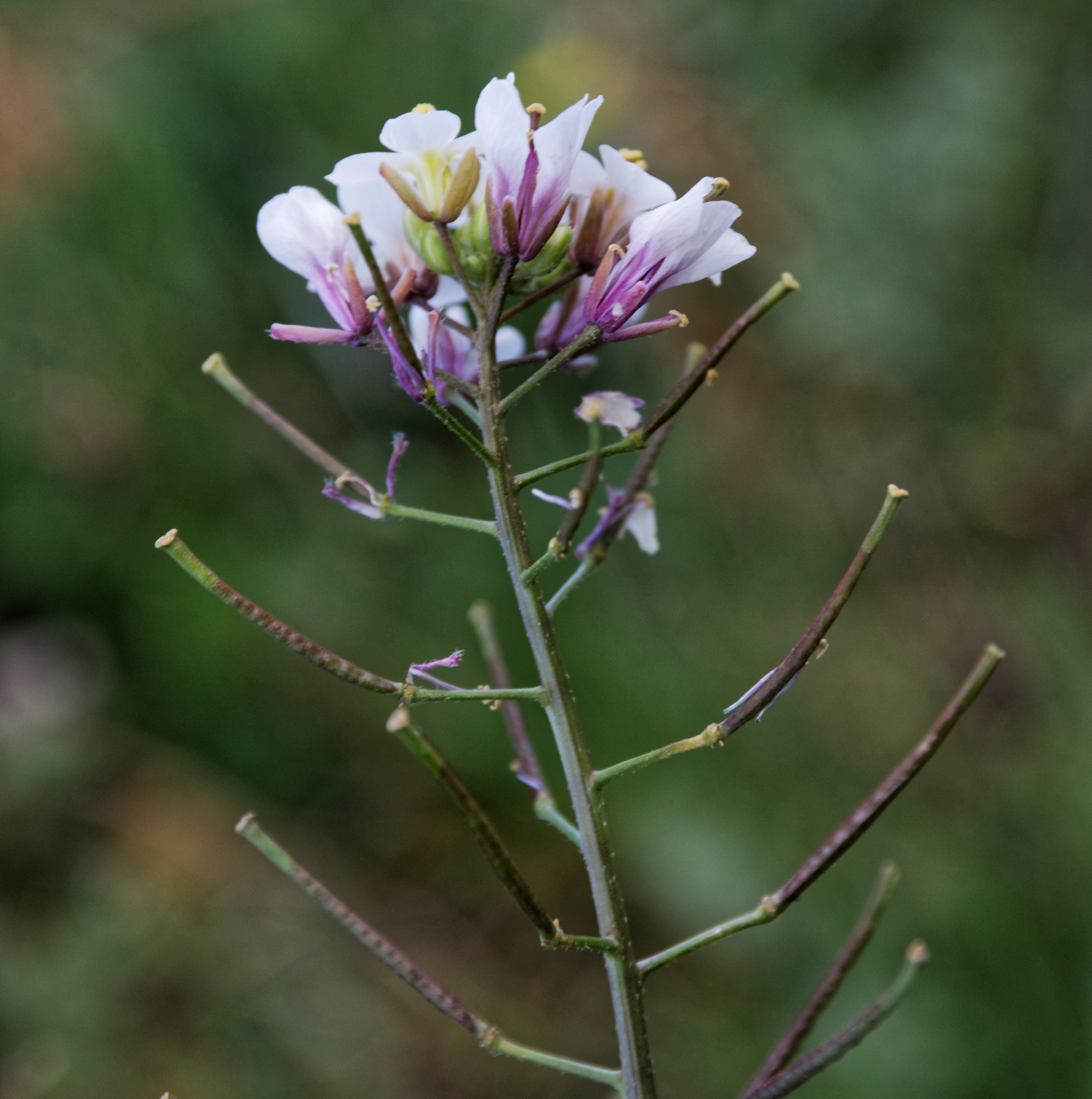 White wall-rocket chalizs.